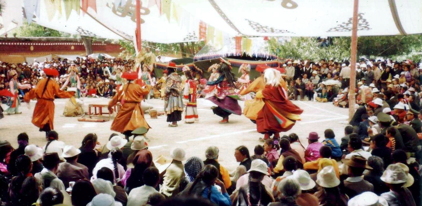 I took this photo in 1993. John E. Hill 23:32, 31 January 2007 (UTC)